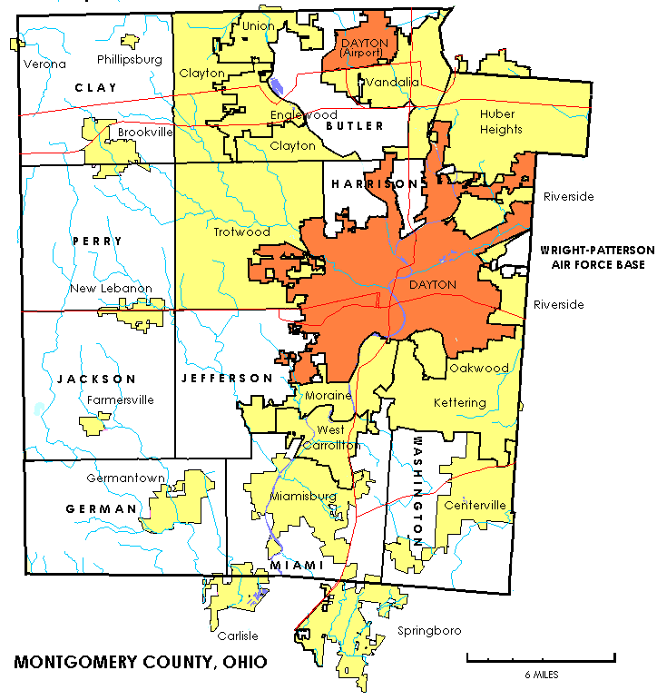 The image depicts the administrative divisions of Montgomery County, Ohio; cities, villages, CDPs, and townships